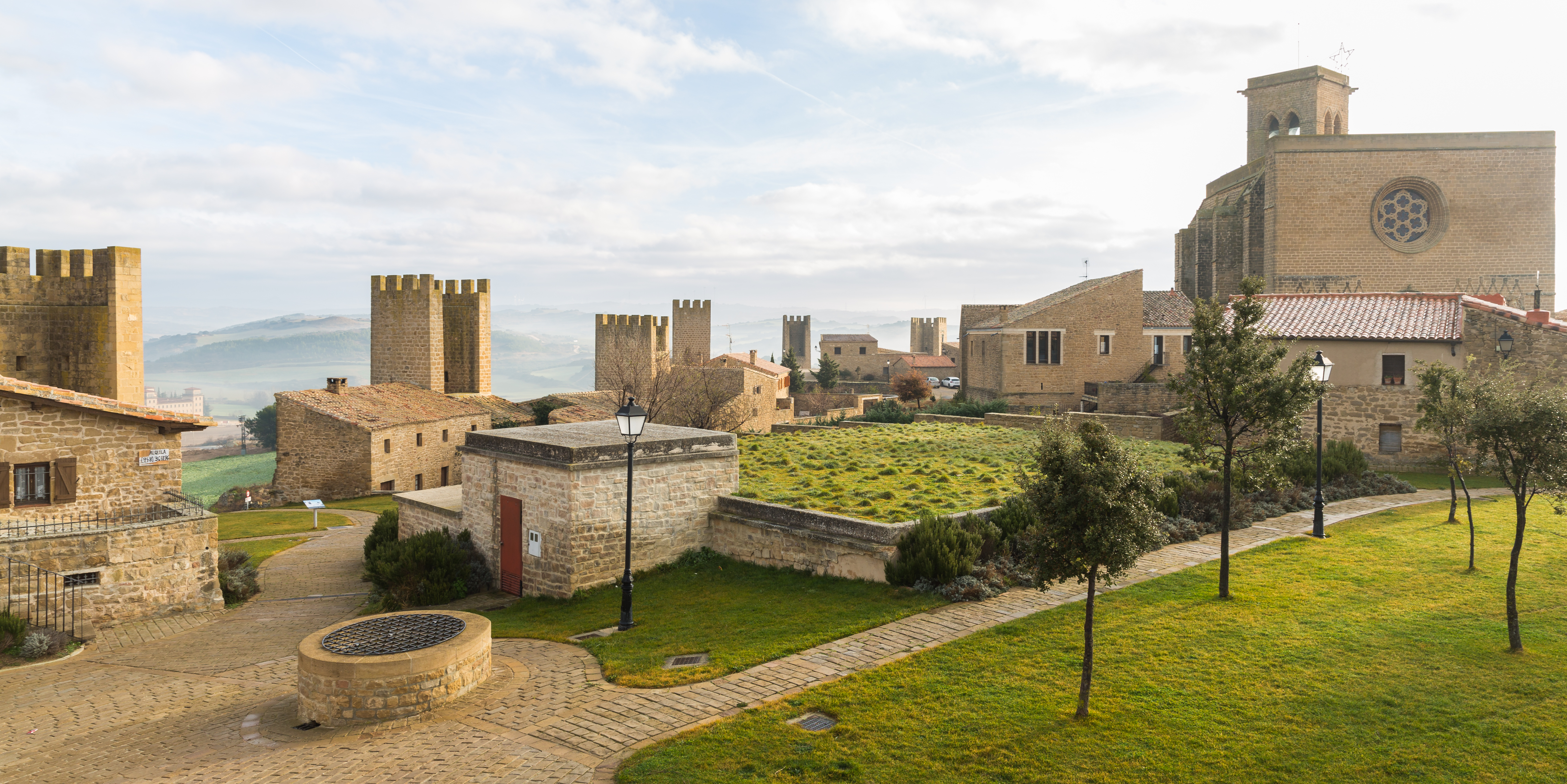 Cerco de Artajona, Navarre, Spain